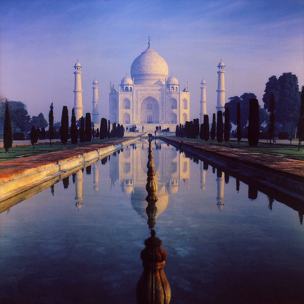 The Taj Mahal